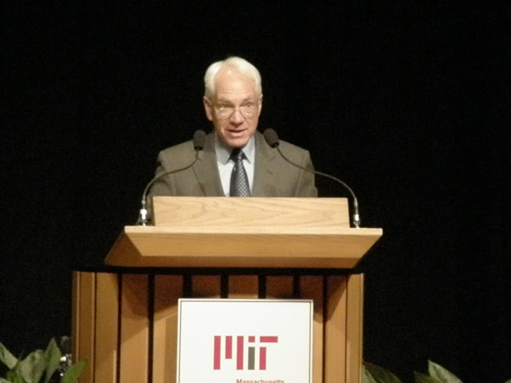 Claude Canizares, Vice President for Research and Bruno Rossi Professor of Physics, MIT MIT Excellence Awards, March 4, 2009